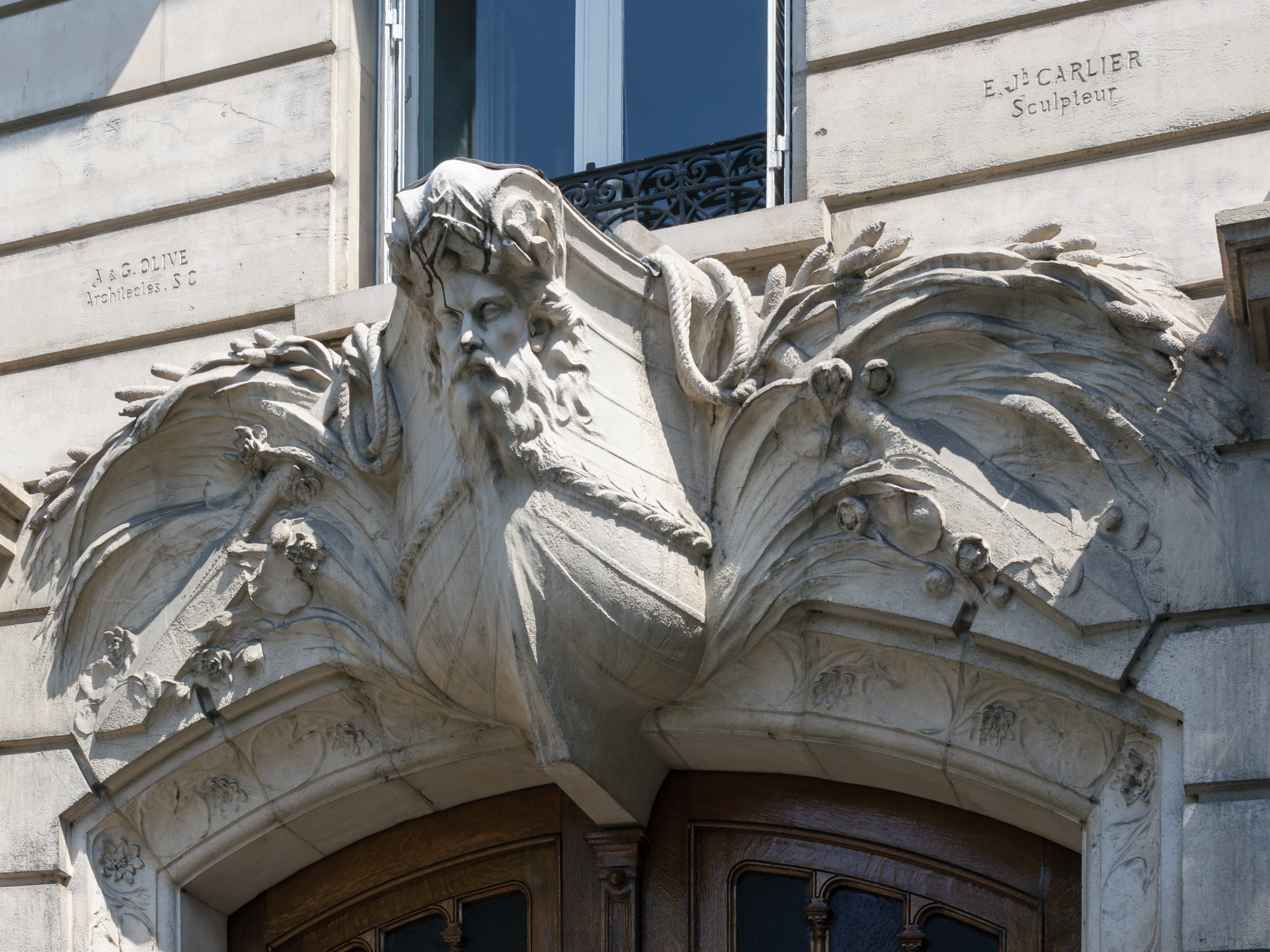 Decorative element carved in relief in the shape of a figurehead of a ship by the sculptor E. J. Carlier above the door of 28 boulevard de la Bastille, Paris, France.